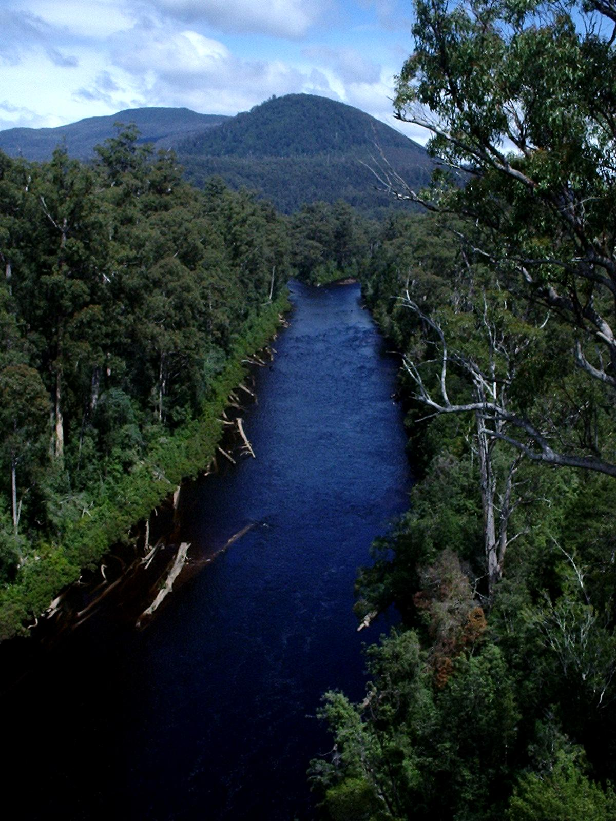 Huon River in Tasmania, Australia. Photo of the confluence of the Huon with the Picton river. Photo taken from the Tahune Airwalk run by forestry Tasmania in mid summer 2003